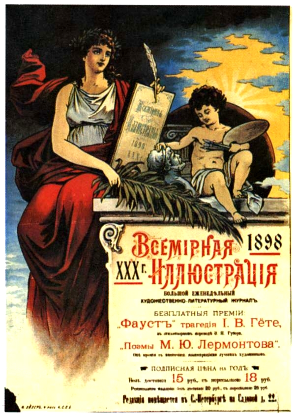 Great Weekly Art and Literary Magazine «World Illustration». Russia, 1898. The Poster, Released on the Occasion of the 30-year Anniversary.